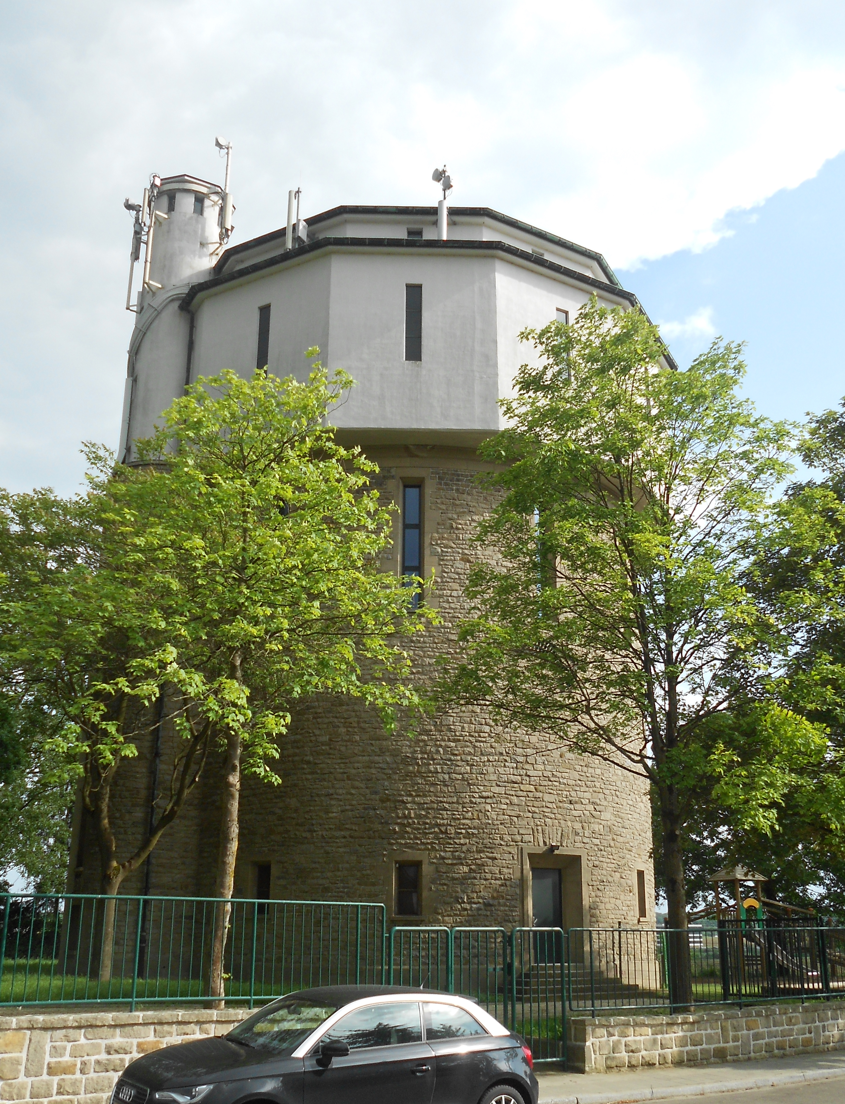 The water tower in Cessange, in the city of Luxembourg, in June 2012.